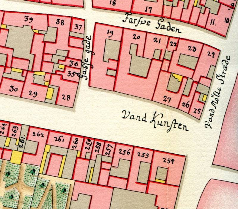 The Square Vandkunsten seen on Gedde's district map of Copenhagen from 1757